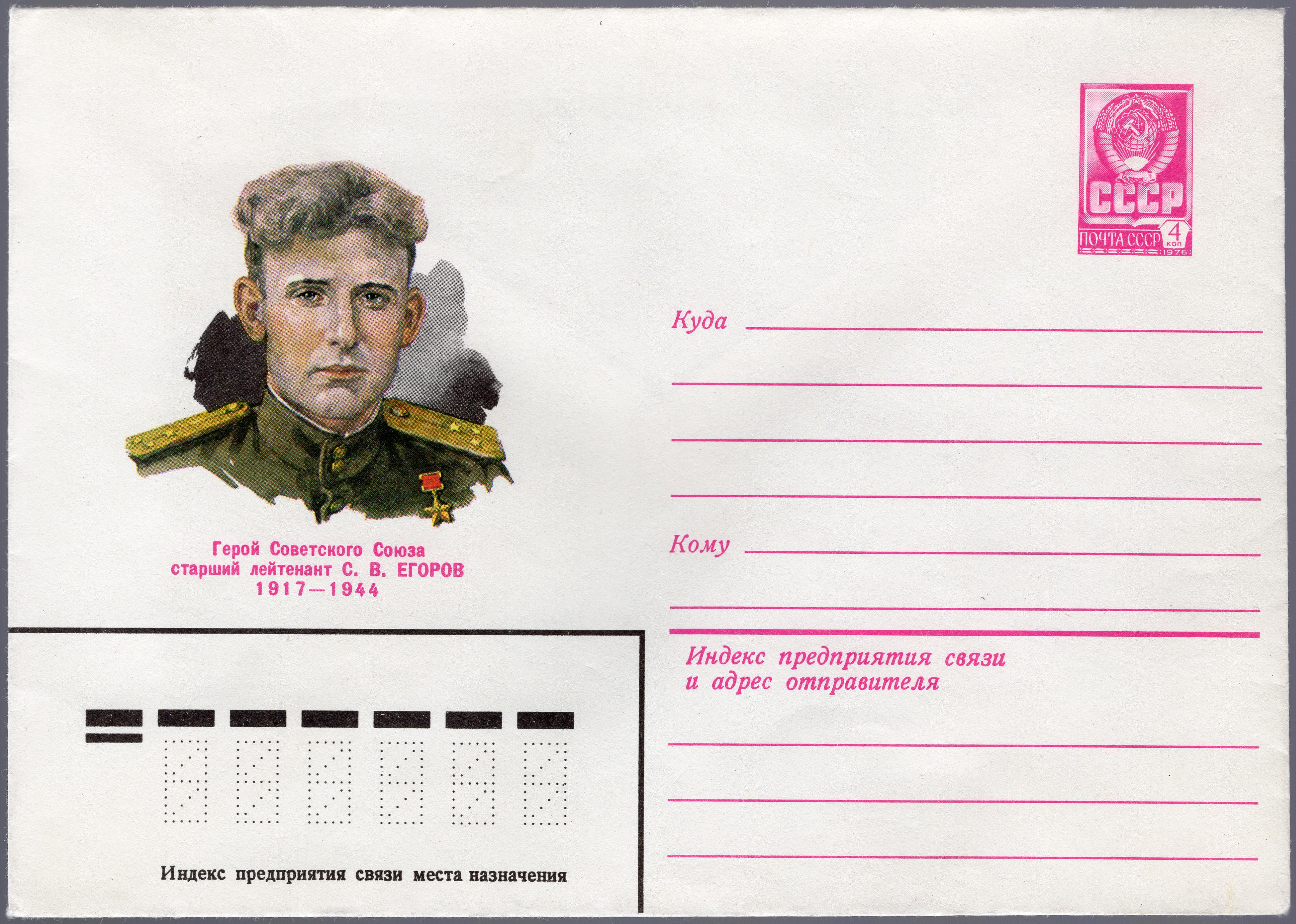 Hero of the Soviet Union Senior lieutenant Sergey Egorov. 1917-1944. Series: Heroes of the Soviet Union. Artist Peter Bendel.